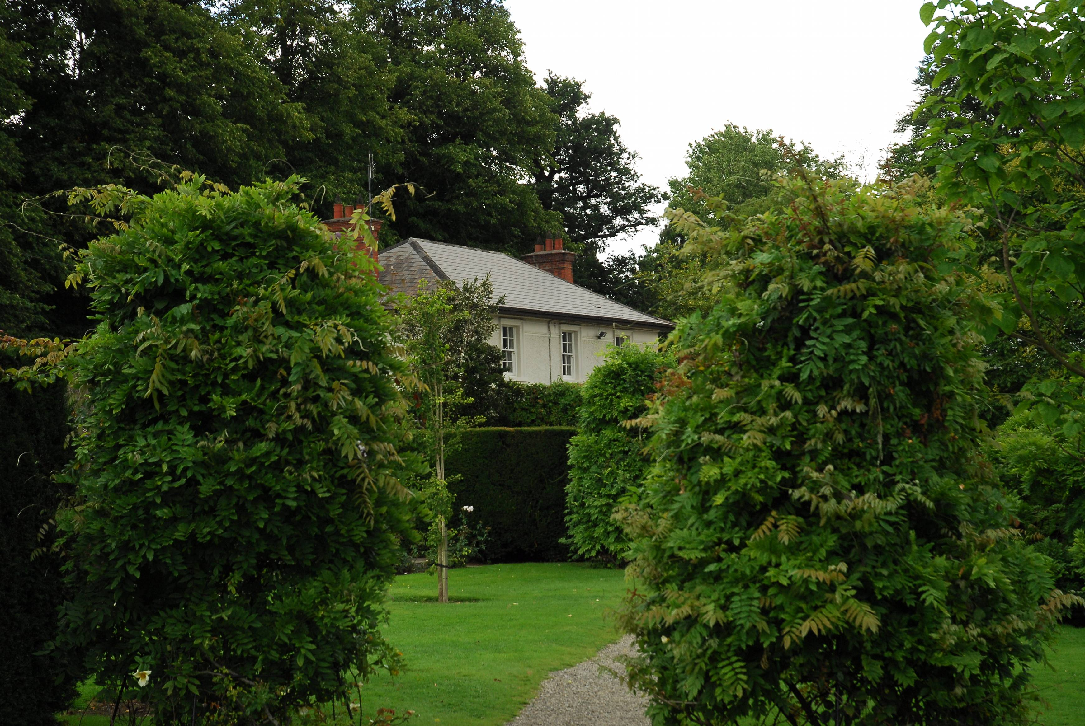 Steward's Lodge viewed from the west.